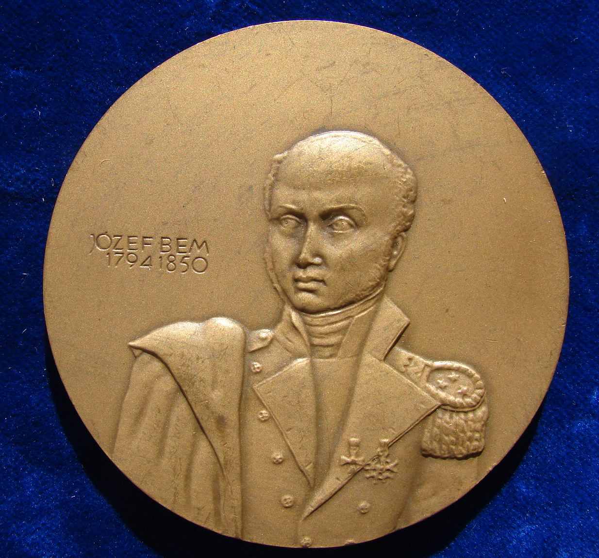 Poland, the obverse of the bronze medal ND (about 1970) commemorating the 1 Warszawska Brygada Artylerii Armat with Józef Bem as patron. Large bronze medallion D = 70 mm. Medallist: J. (Jósef) Misztela, Sculptor.